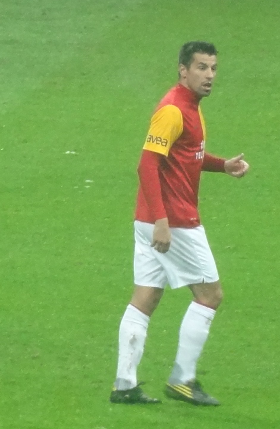 Milan Baros karabükspor maçında